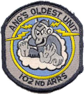 102d Aerospace Rescue Recovery Squadron - emblem